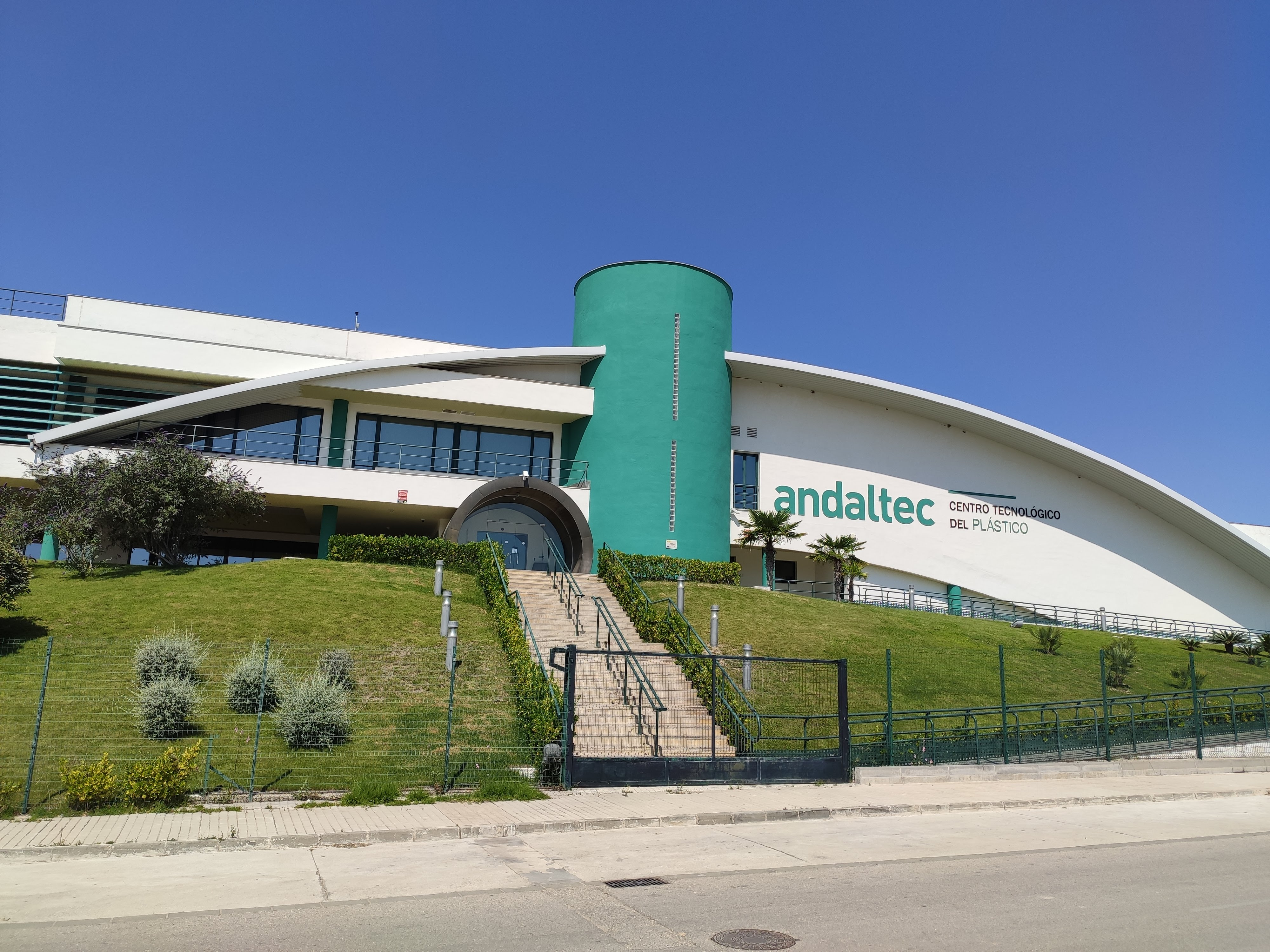 Andaltec I+D+i foundation. Plastic technological center in Martos, Jaén (Spain).